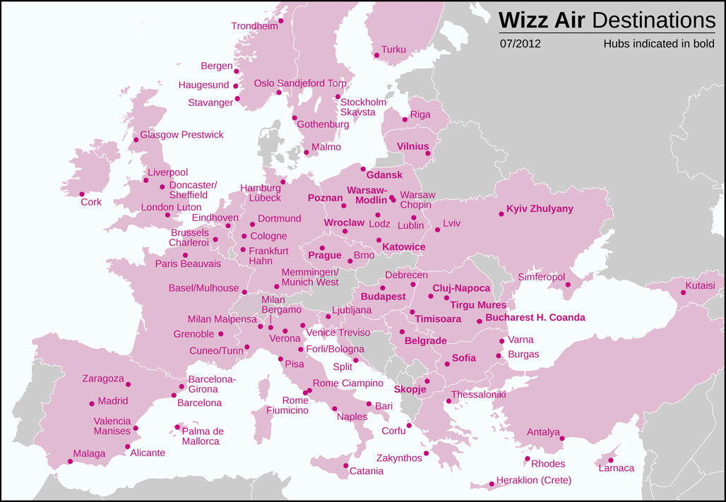 Destinations of Wizz Air